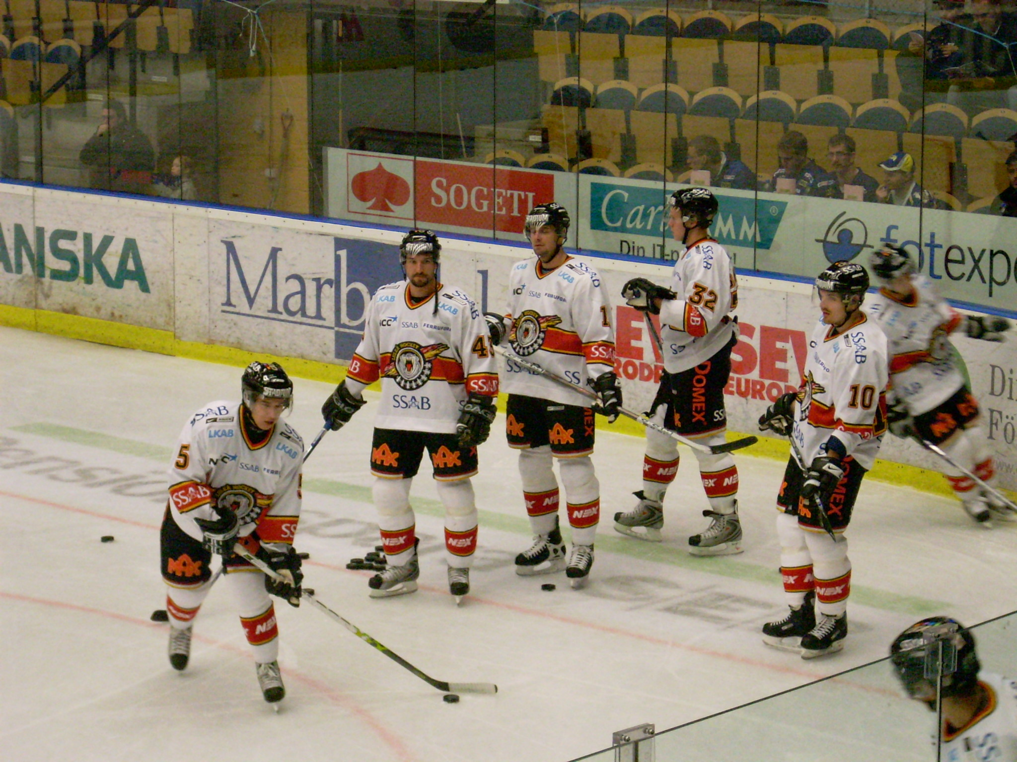 Ice Hockey players from Luleå HF warming up before the Swedish Elite League away game versus HV71. HV71 won the game, 4-0.